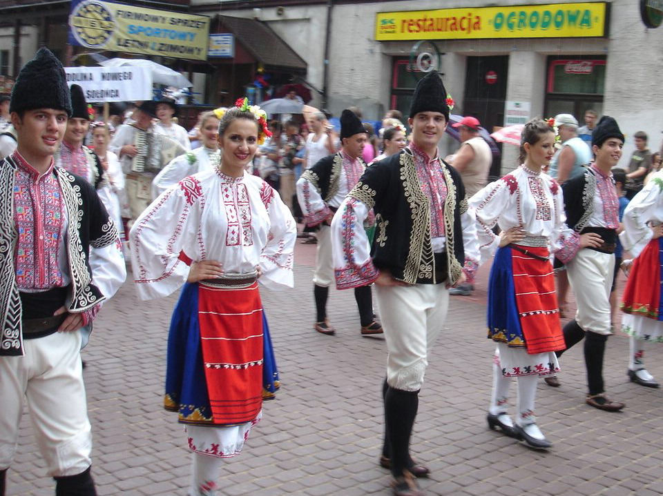 Bulgarians in traditional folk costumes from Momchilovtsi, Smolyan Municipality (Rhodopes Mountains). Pictures taken in August 2008. Wisła. Poland.